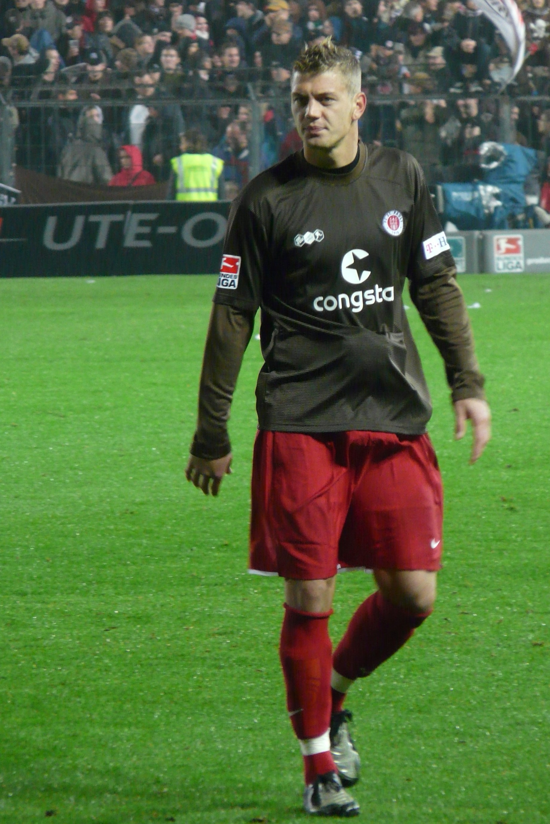 Alexander Walke as Player from SV Wehen Wiesbaden